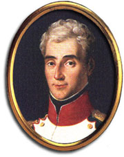 was a French soldier in the armies of Napoleon and a Marshal of France.